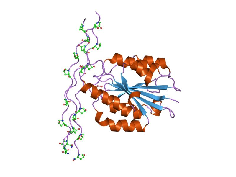 Cartoon representation of the molecular structure of protein registered with 1dzi code.